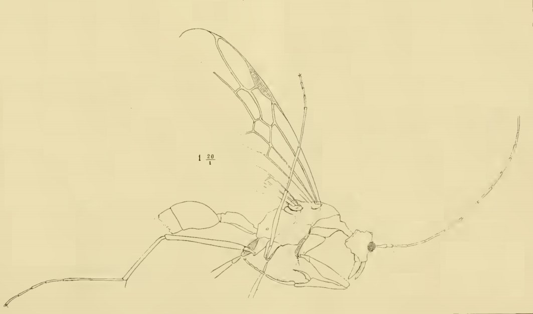 Illustrated profile view of the Ectatomma gracile holotype male.